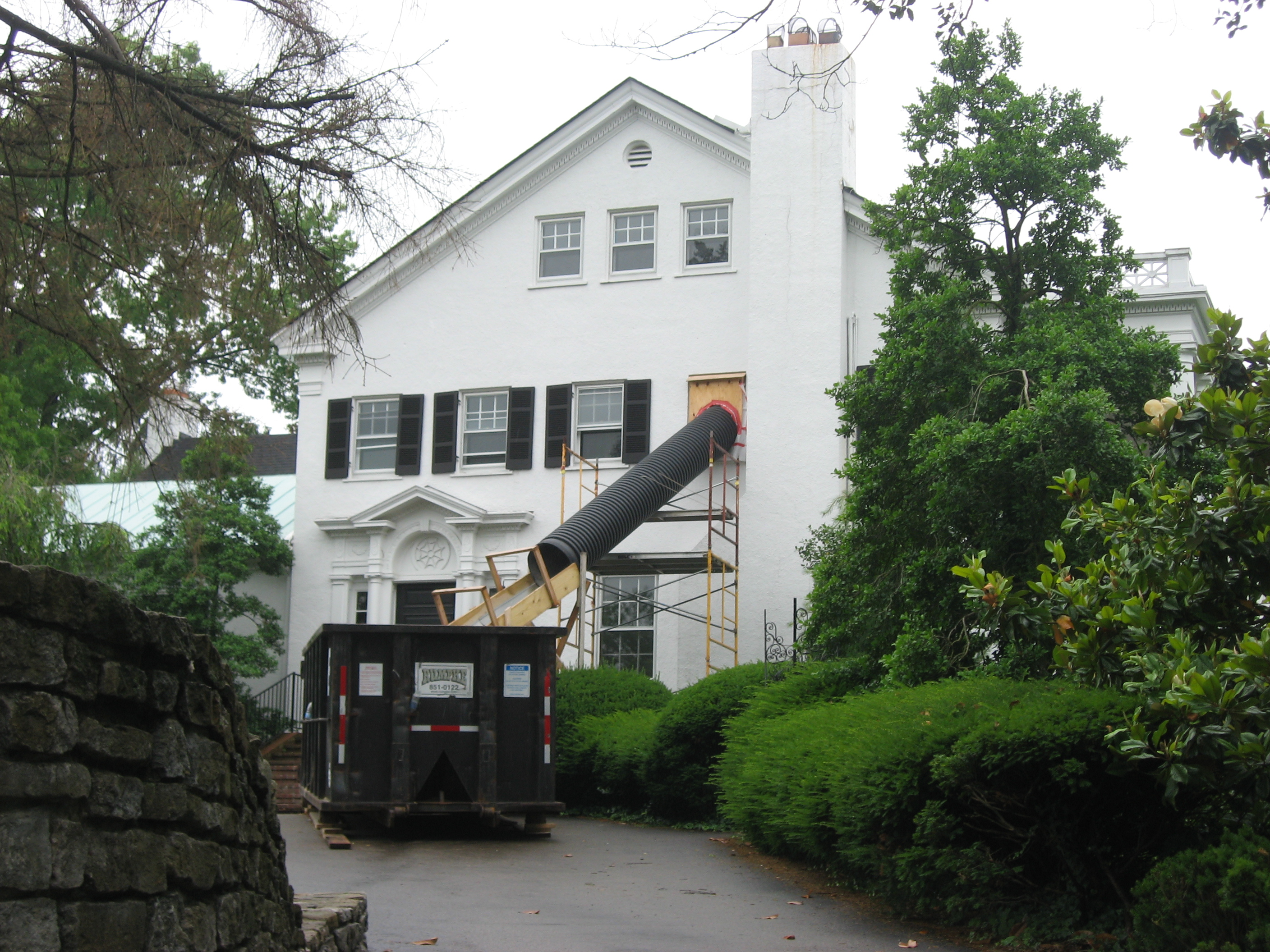 Side of the Bernheim House, located at 195 Green Hills Road in Cincinnati, Ohio, United States. Built in 1912, it is listed on the National Register of Historic Places.